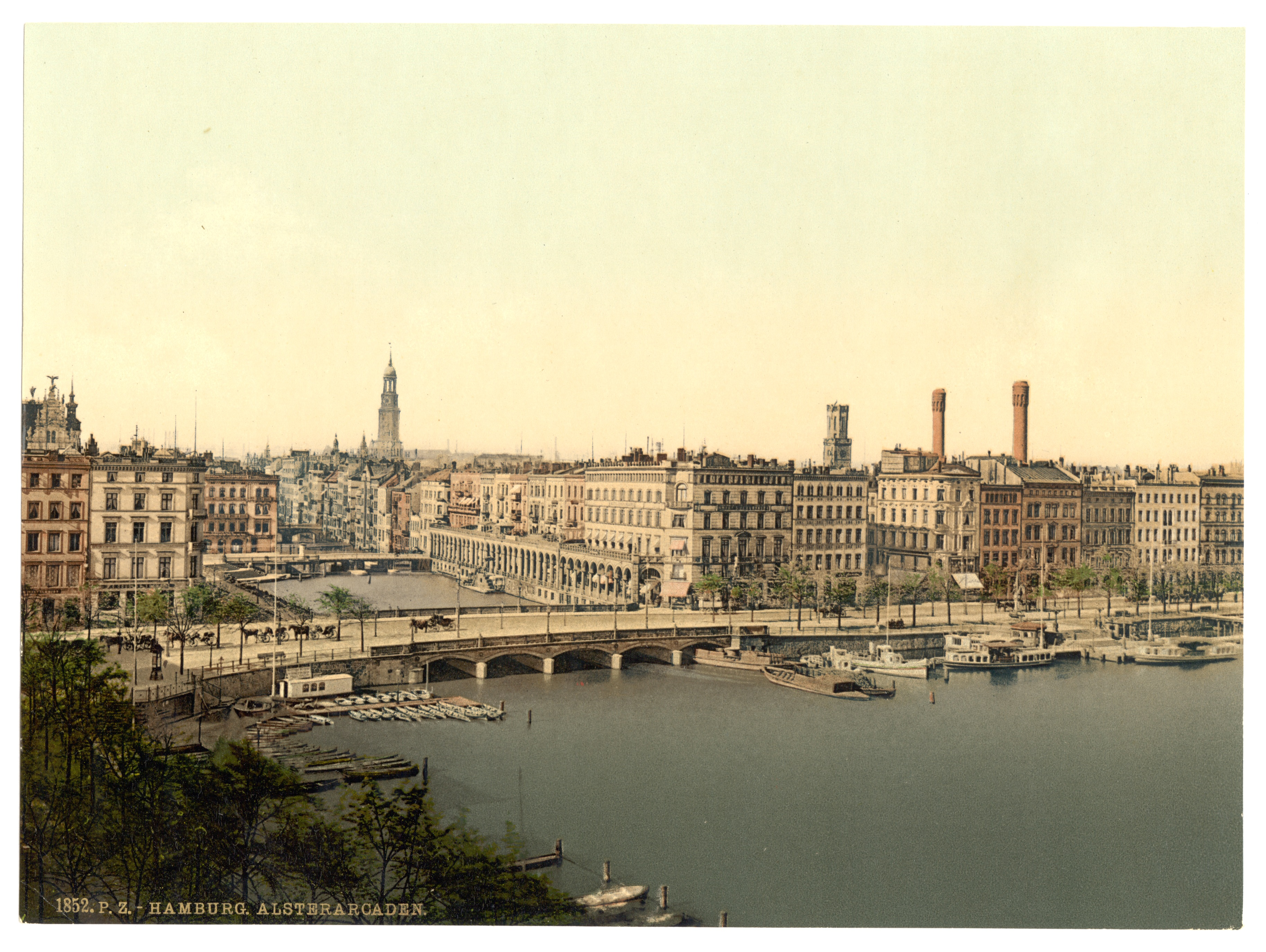 Print no. "1852".; Title from the Detroit Publishing Co., catalogue J-foreign section. Detroit, Mich. : Detroit Photographic Company, 1905..; Forms part of: Views of Germany in the Photochrom print collection.